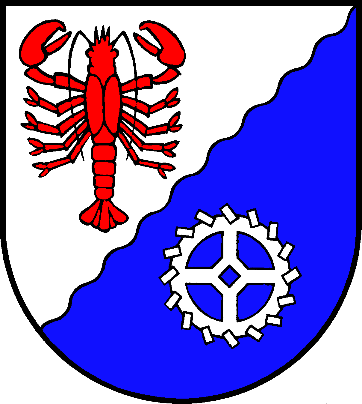 Coat of arms of the municipality Hohenfelde in Schleswig-Holstein, Germany.